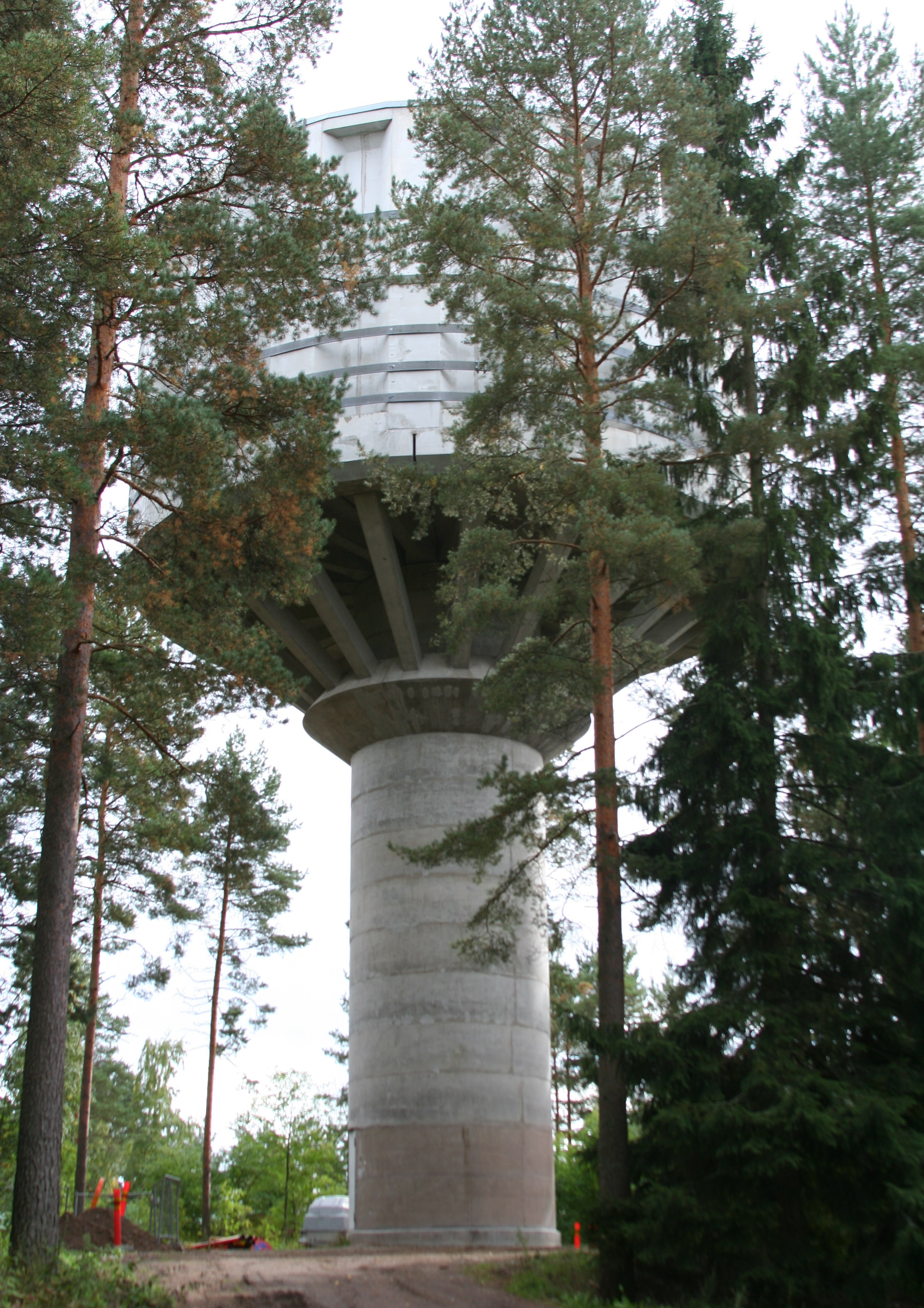 Nurmijärvi water tower, Nurmijärvi, Finland. Precast concrete.